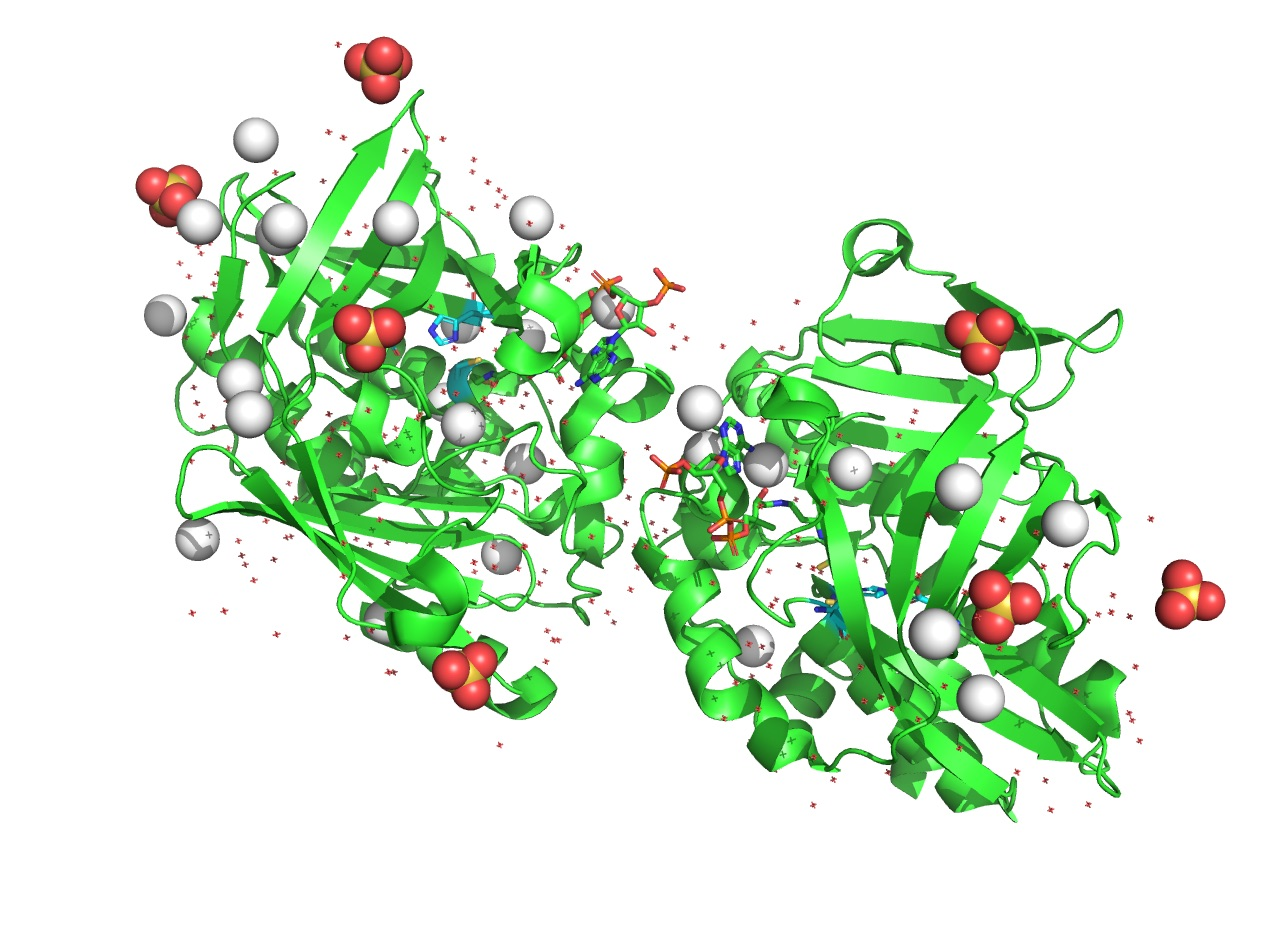 A 3D depiction of human NAT2 created using the protein structure 2PFR from the Protein Data Bank (PDB). CoA is included in the active site, and the catalytic triad residues Cys, His, and Asp are highlighted.